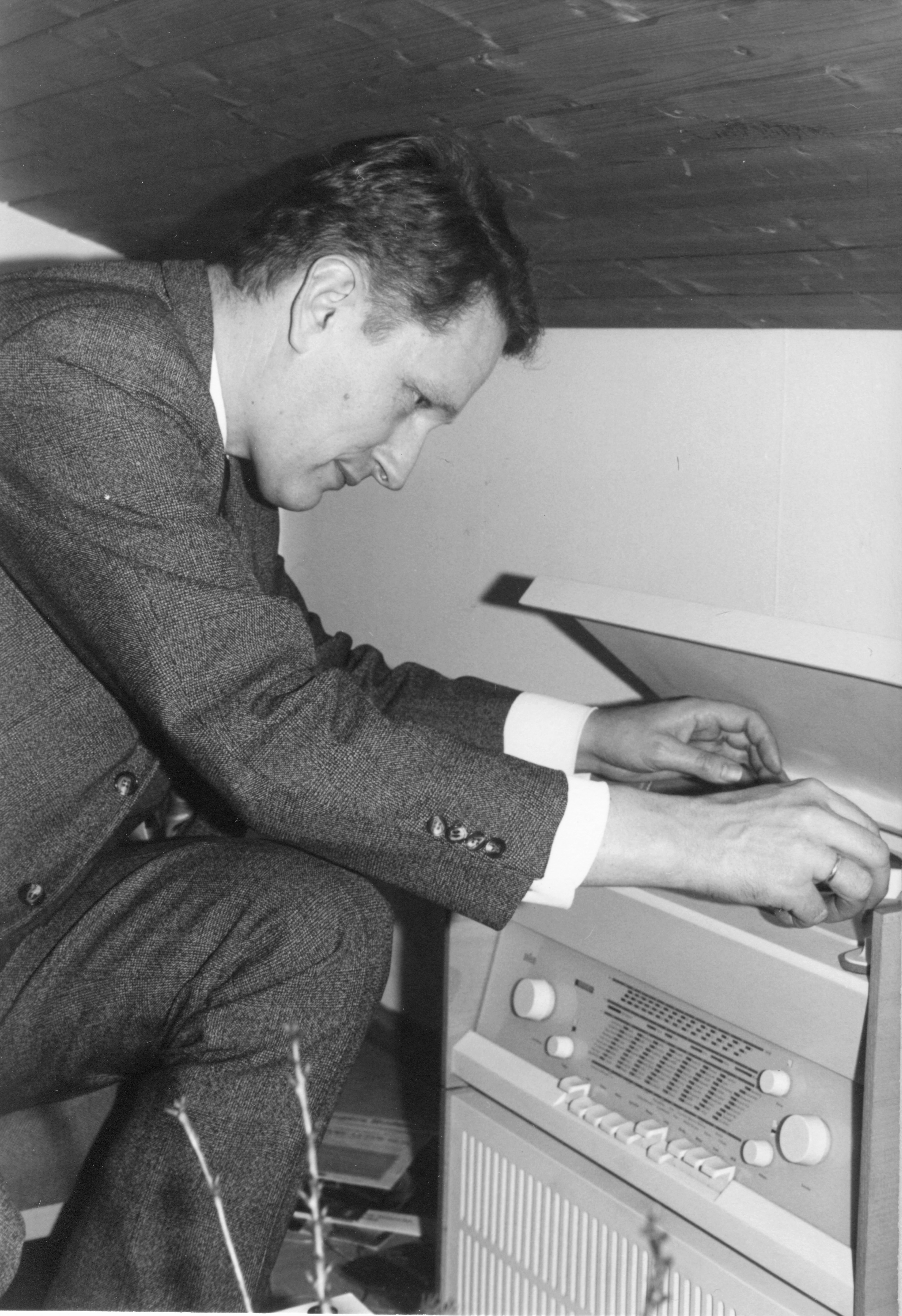 Manfred Börner Sylvester 1966 Radio